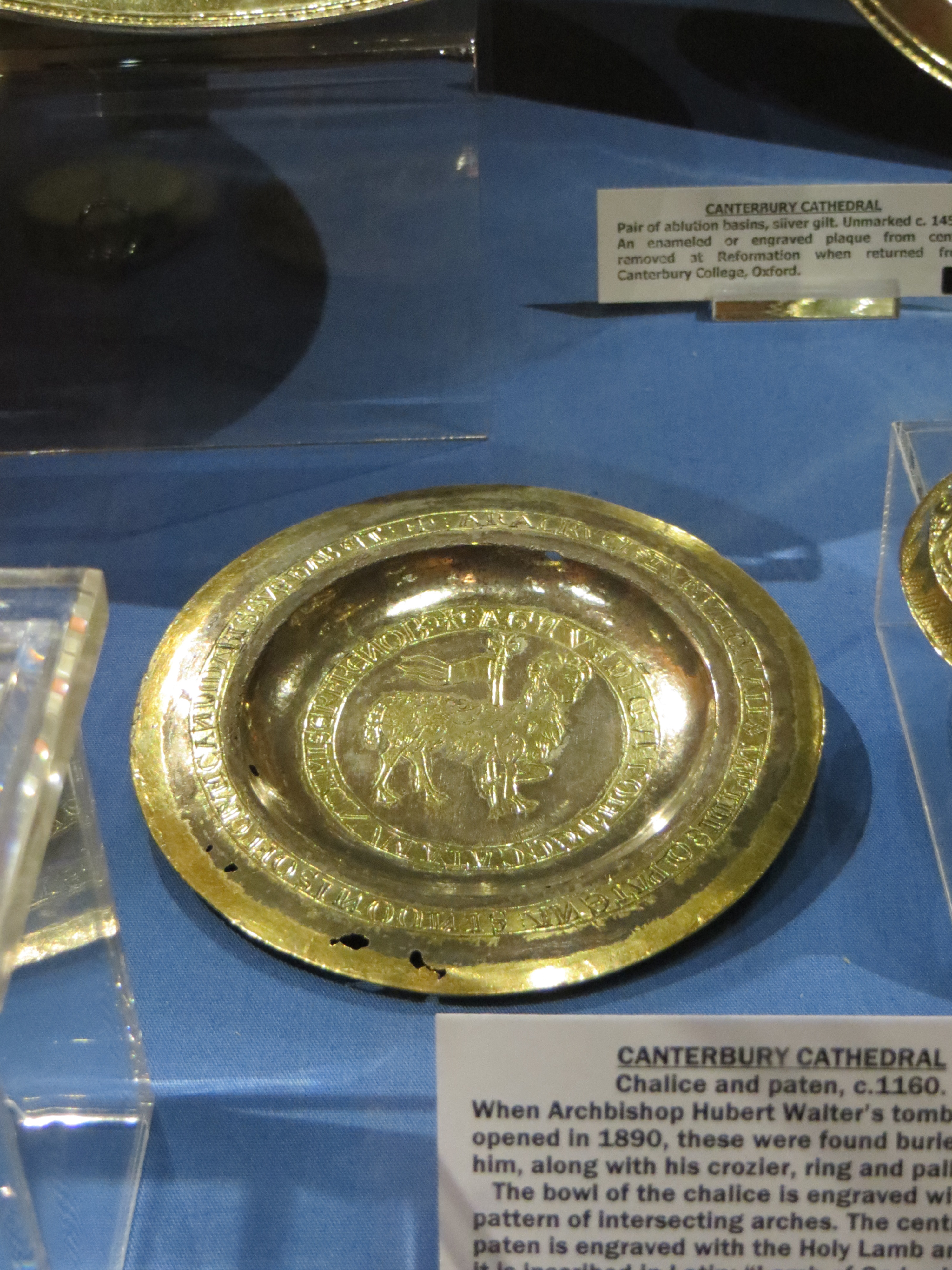 Huber Walter Paten in Canterbury Cathedral, 1160 AD